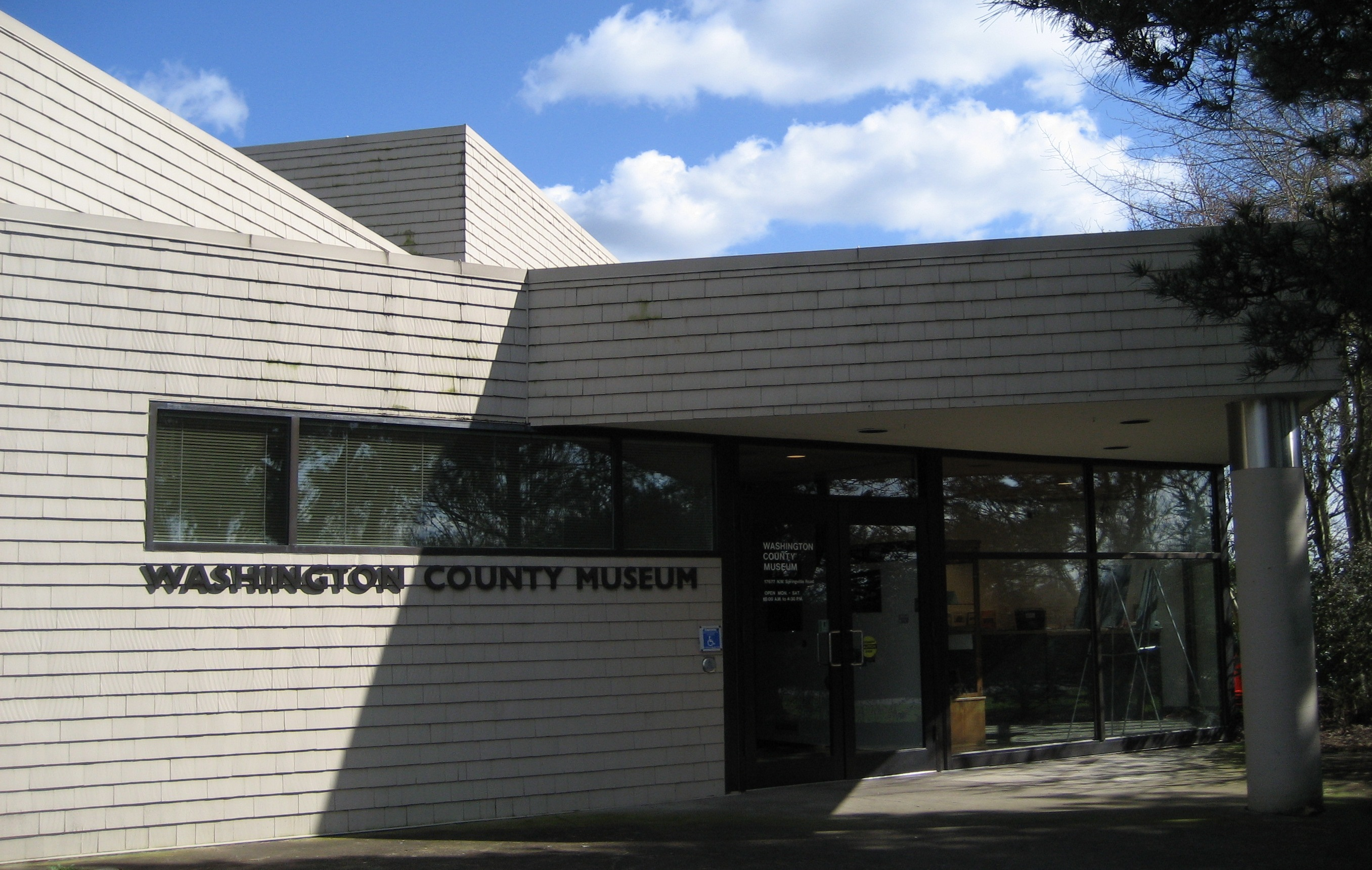 The exterior of the Washington County Museum in Oregon, USA.